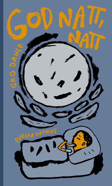 Cover illustration for "God natt, natt" ("Good Night, Night"), a children's picture book by author Gro Dahle and illustrator Svein Nyhus, first published by Cappelen Damm, Oslo, Norway 2009. Artwork entirely created by Svein Nyhus.